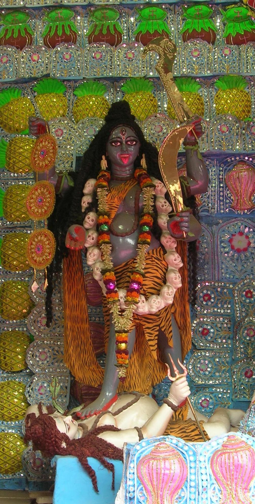 Tara at Janbajar Sammilito Kali Puja Samiti pandal, Kolkata.